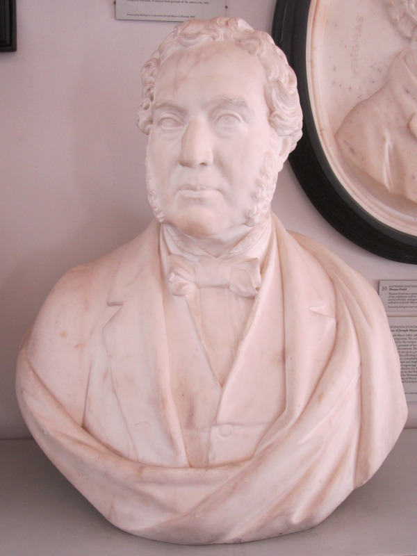 Bust of Joseph Mayer (Liverpool collector and antiquarian) by Giovanni Fontana (1821-1893), Walker Art Gallery, Liverpool, England.